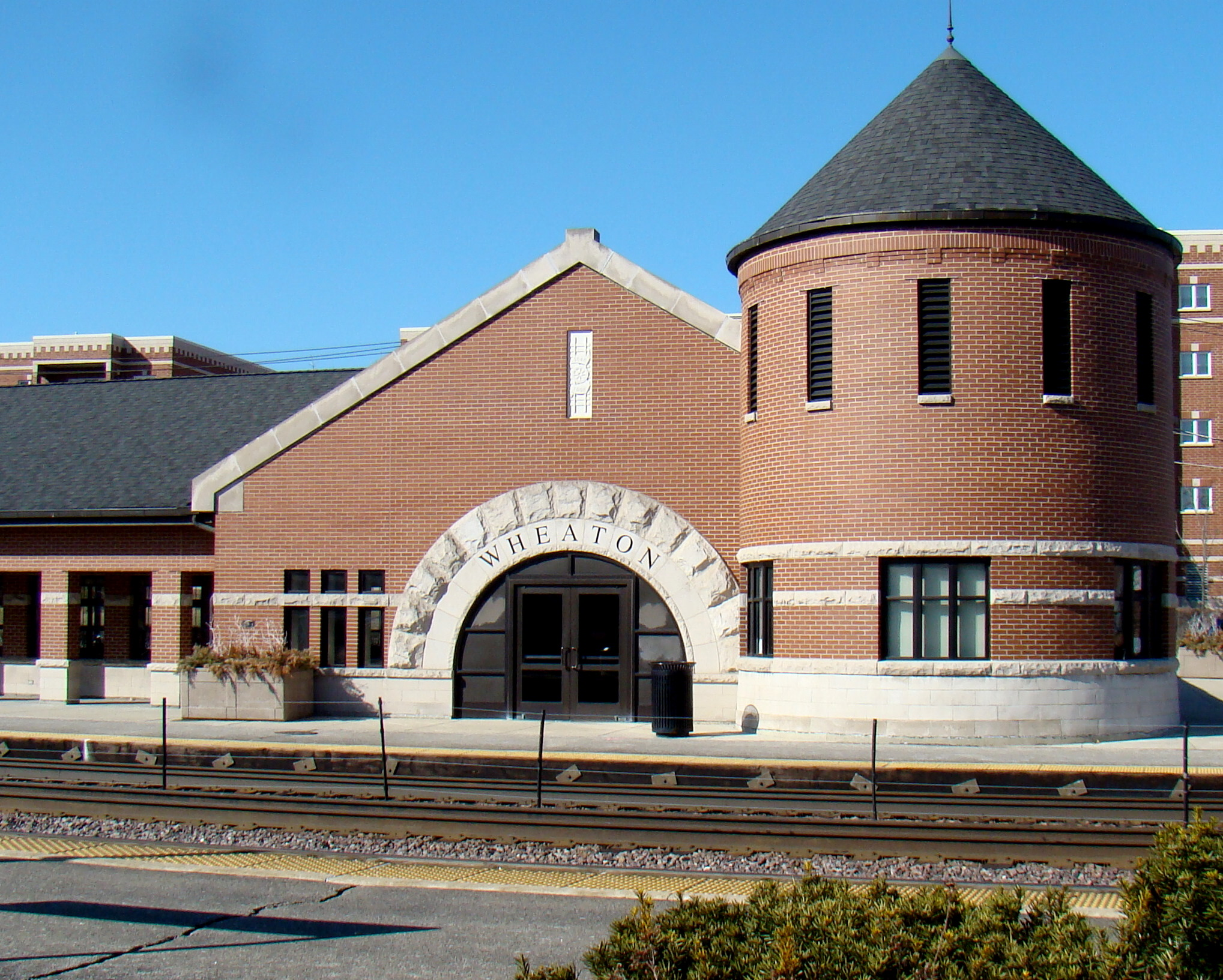 The primary Metra station in Wheaton, Illinois.